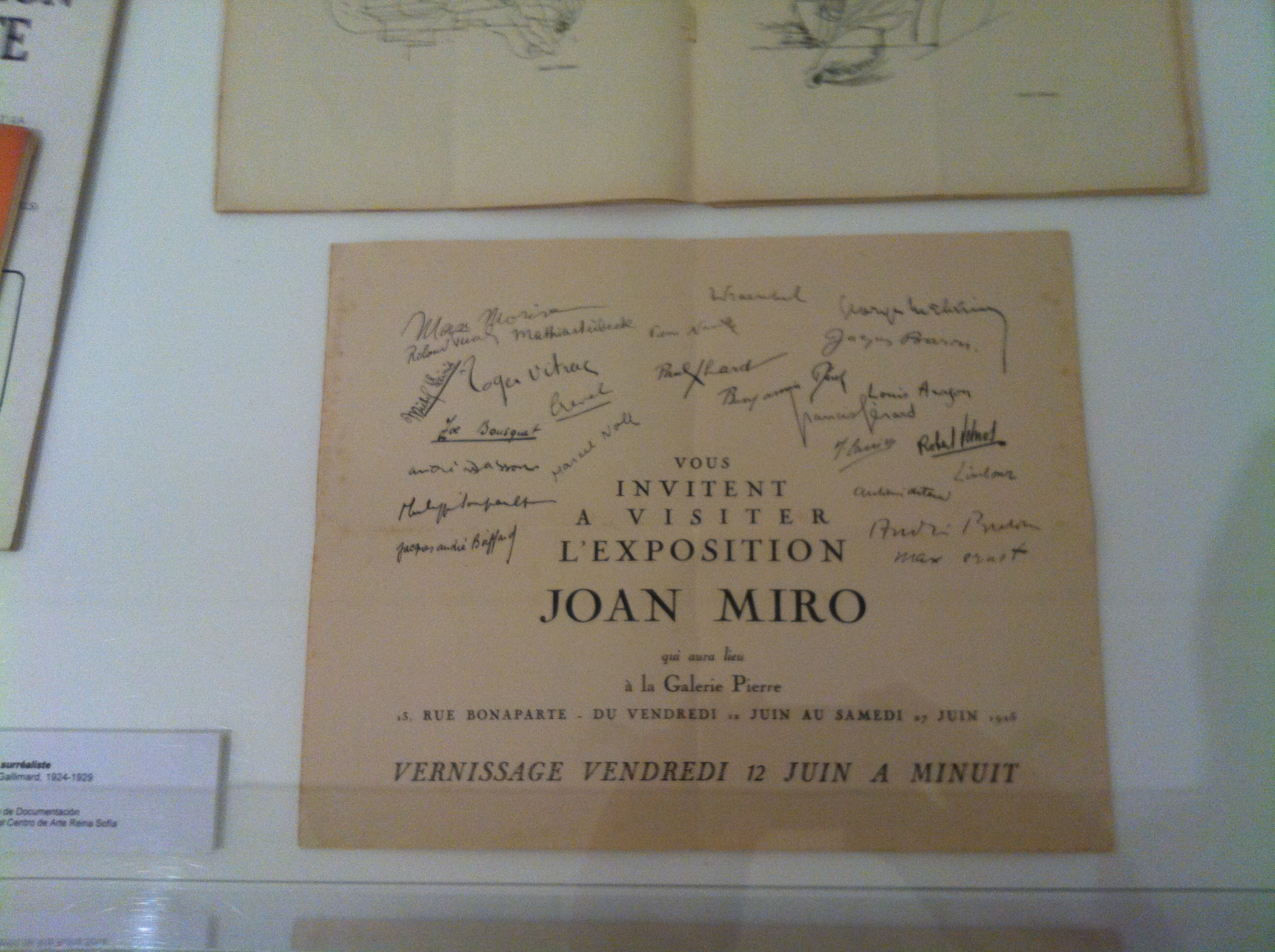 Interior views of Museo Reina Sofia